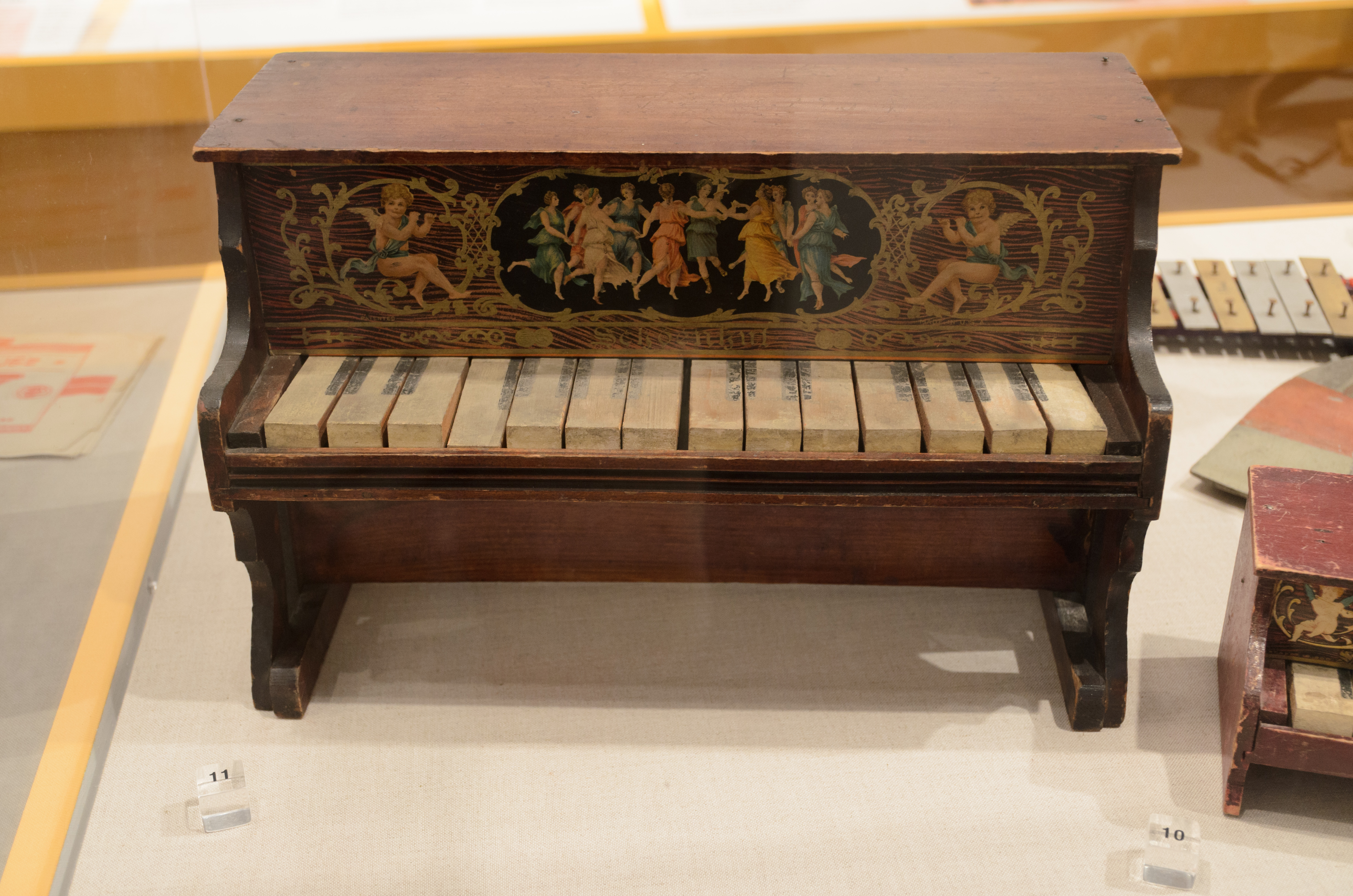 Fourteen Key Schoenhut Metallic Piano, from the exhibit Played in Philadelphia: Albert Schoenhut, Philadelphia's Own Santa Claus at the Philadelphia History Museum, Philadelphia.